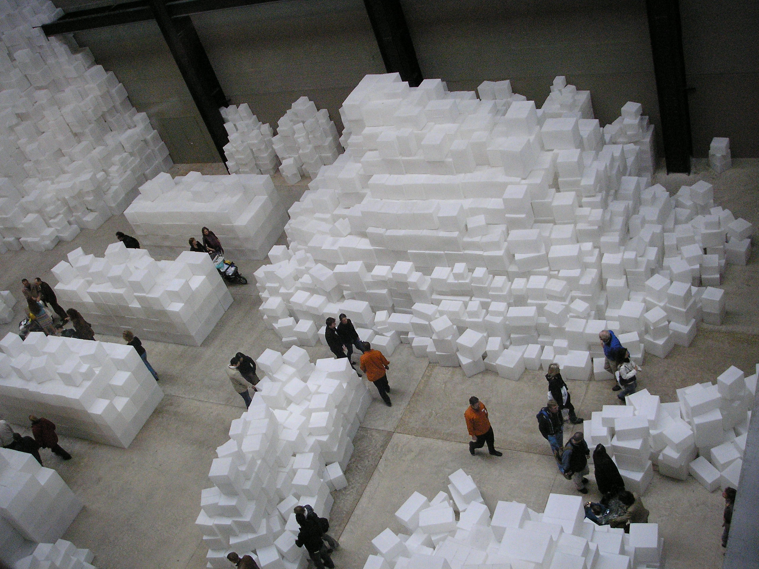 Embankment by Rachel Whiteread at the Tate Modern in London.